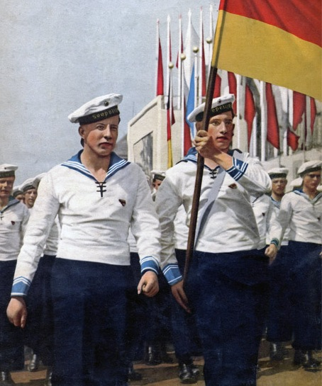 Selection of an image originally from the cover of German Democratic Republic in Construction Number 4, 1952